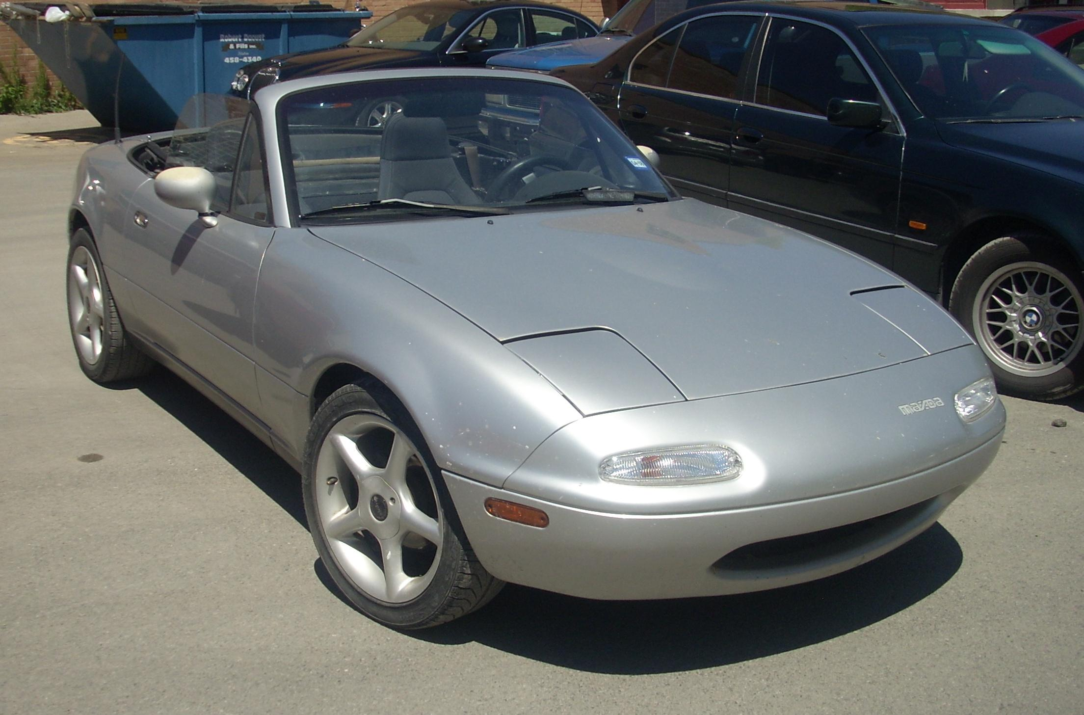 1990-1992 Mazda Miata photographed at the 2008 Hudson British Car Show